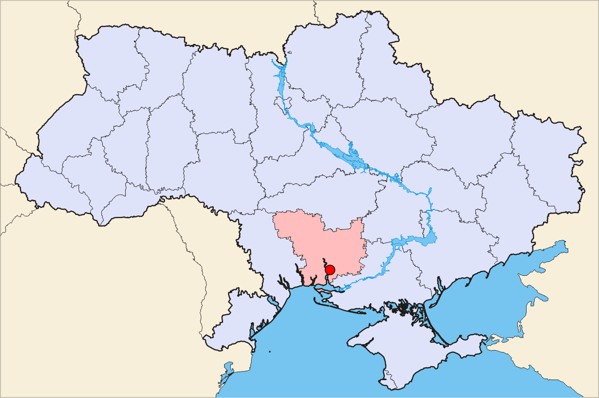 Description = Mykolaiv geographical position Source = own work, Skluesener Date = 20.01.2006 Author = Skluesener Credits = Colours chosen according to a map of steschke